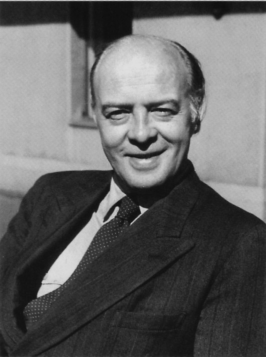 Photograph of the Finnish poet Viljo Kajava (1909–1998).